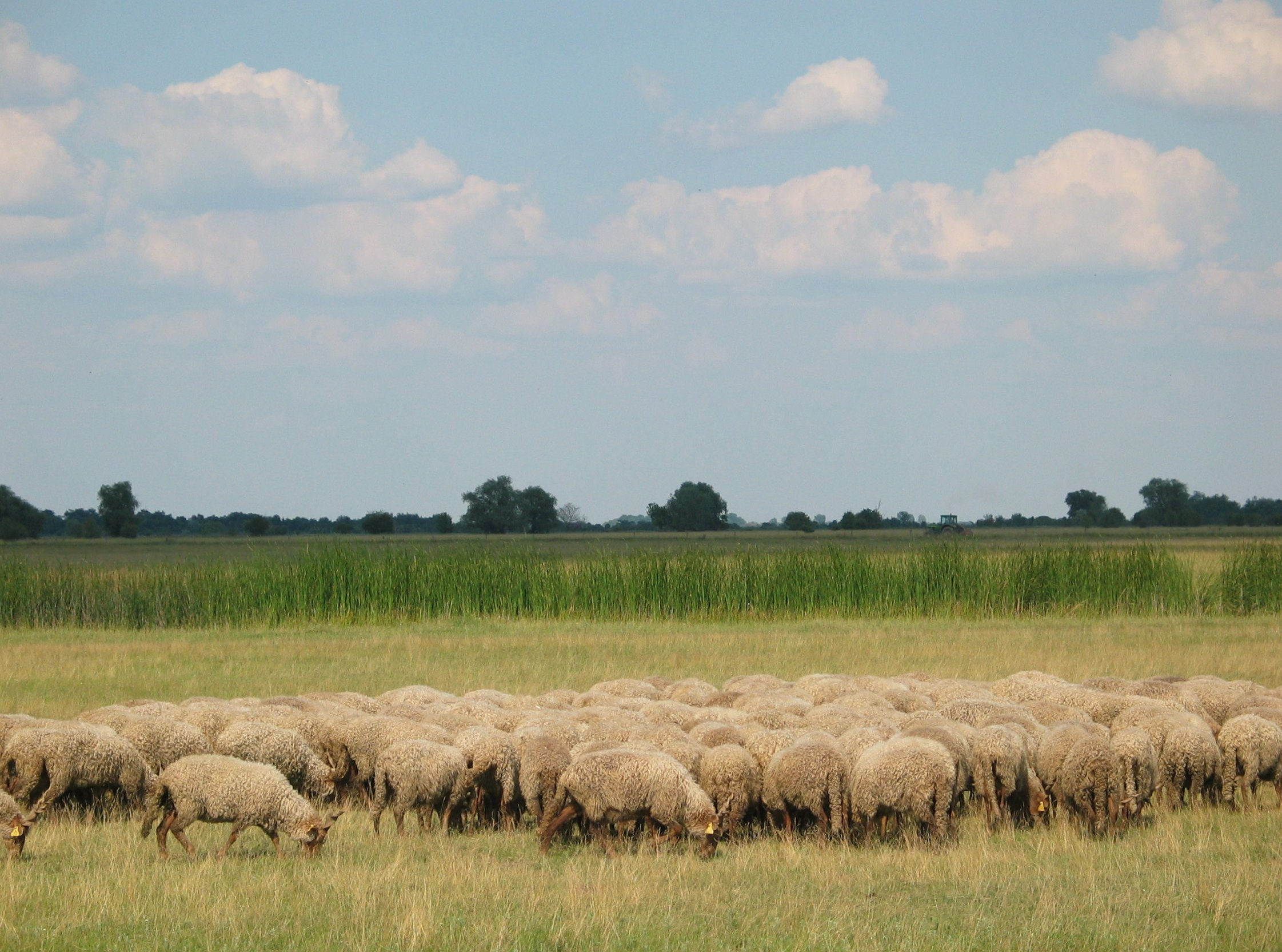 Racka sheep in Hortobágy National Park, Hungary.